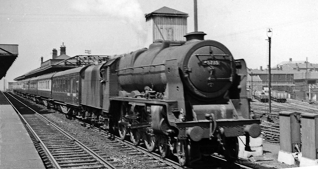 Up express at Wigan (North Western). View NW, towards Preston, Carlisle etc. on the West Coast Main Line. THe express is the 11.10 Windermere/12.10 Blackpool (Central) to Crewe, headed by Rebuilt LMS 'Jubilee' 6P 4-6-0 No. 45735 'Comet'.